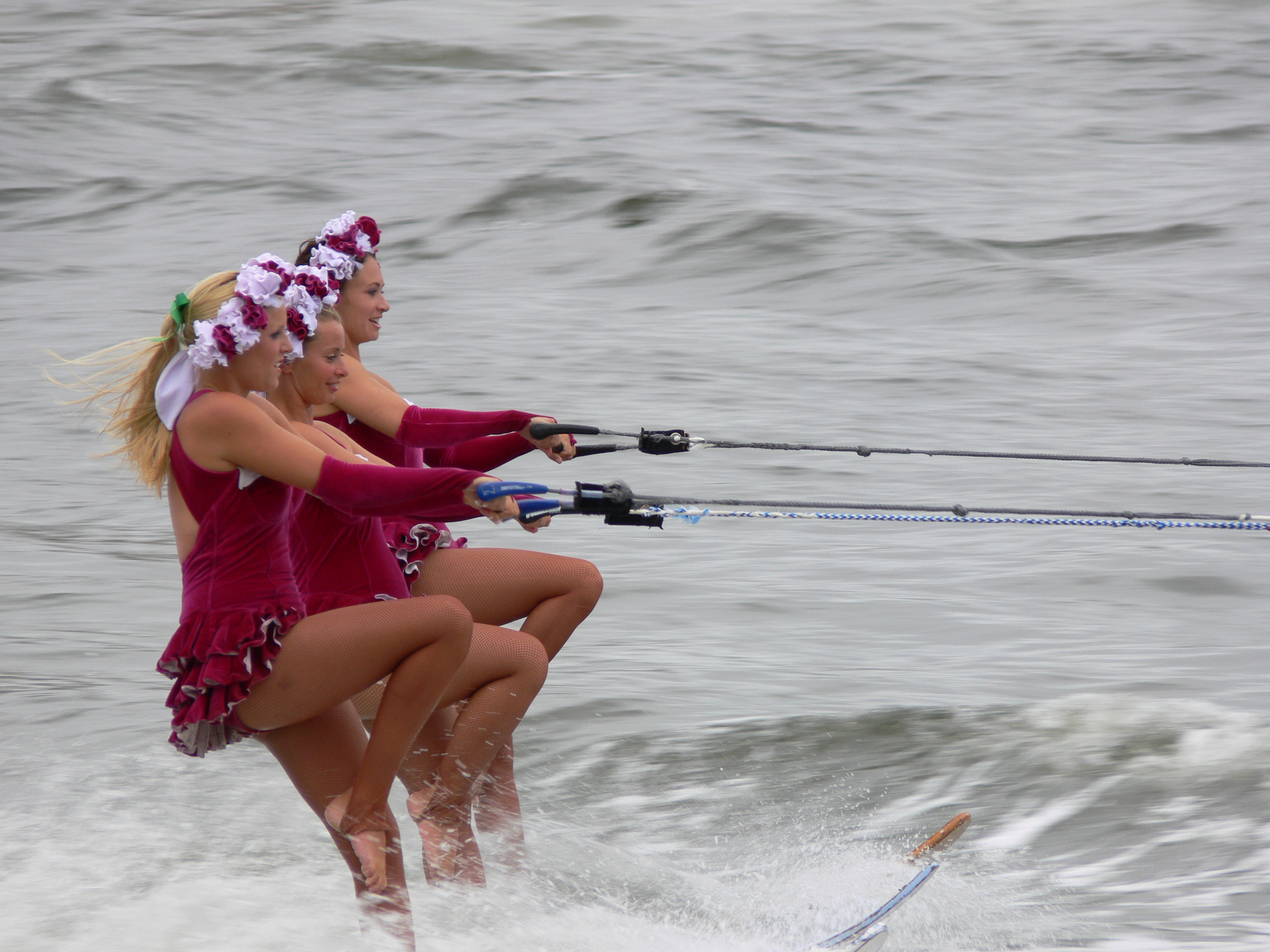 Skiing and bikini girls at Sea World on the Gold Coast.